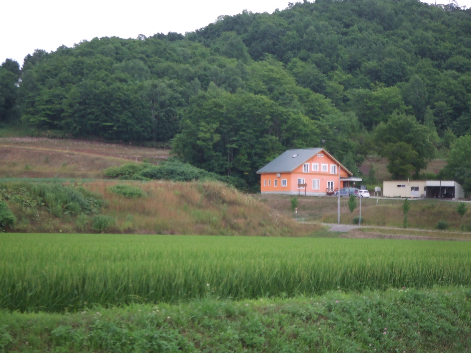 Nayoro-sunpillar-YH